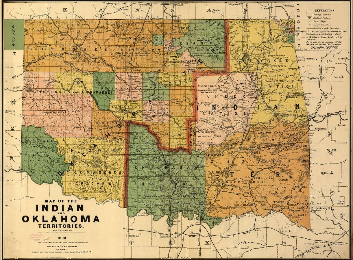 This map was published in 1892 by the Rand McNally Co. in Chicago. It shows the borders of Native American located in Oklahoma.